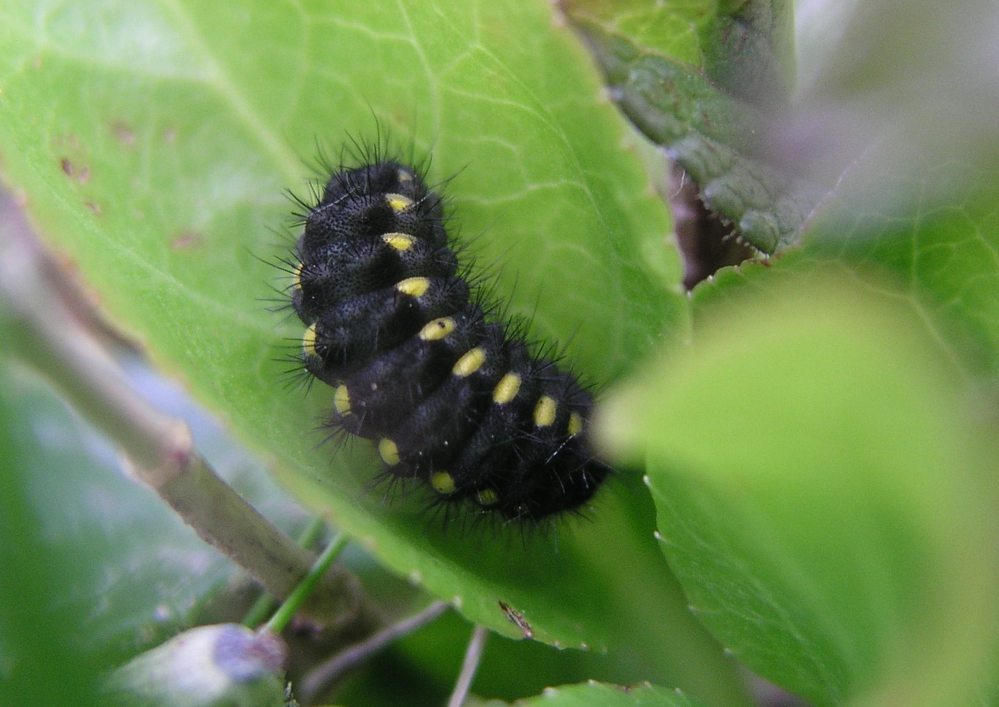 Caterpillar of Zygaena exulans; Furka Switzerland